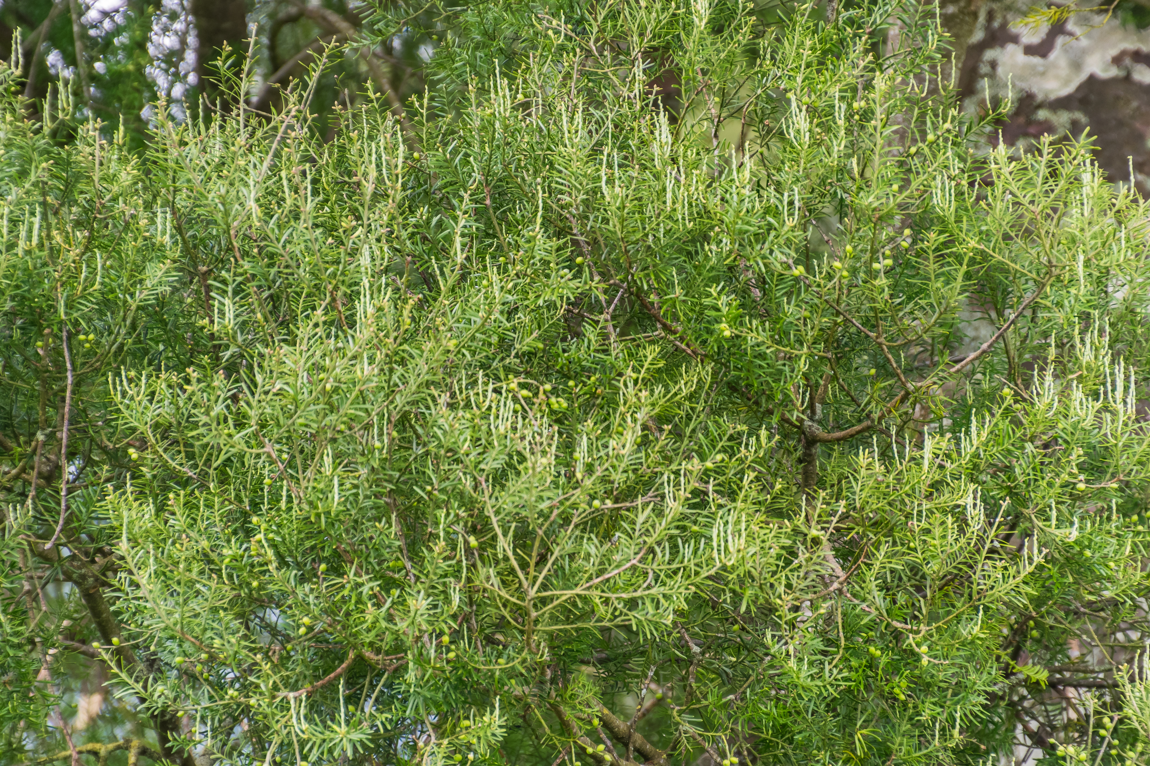 Libocedrus bidwillii near Inchbonnie in West Coast Region in the South Region, New Zealand